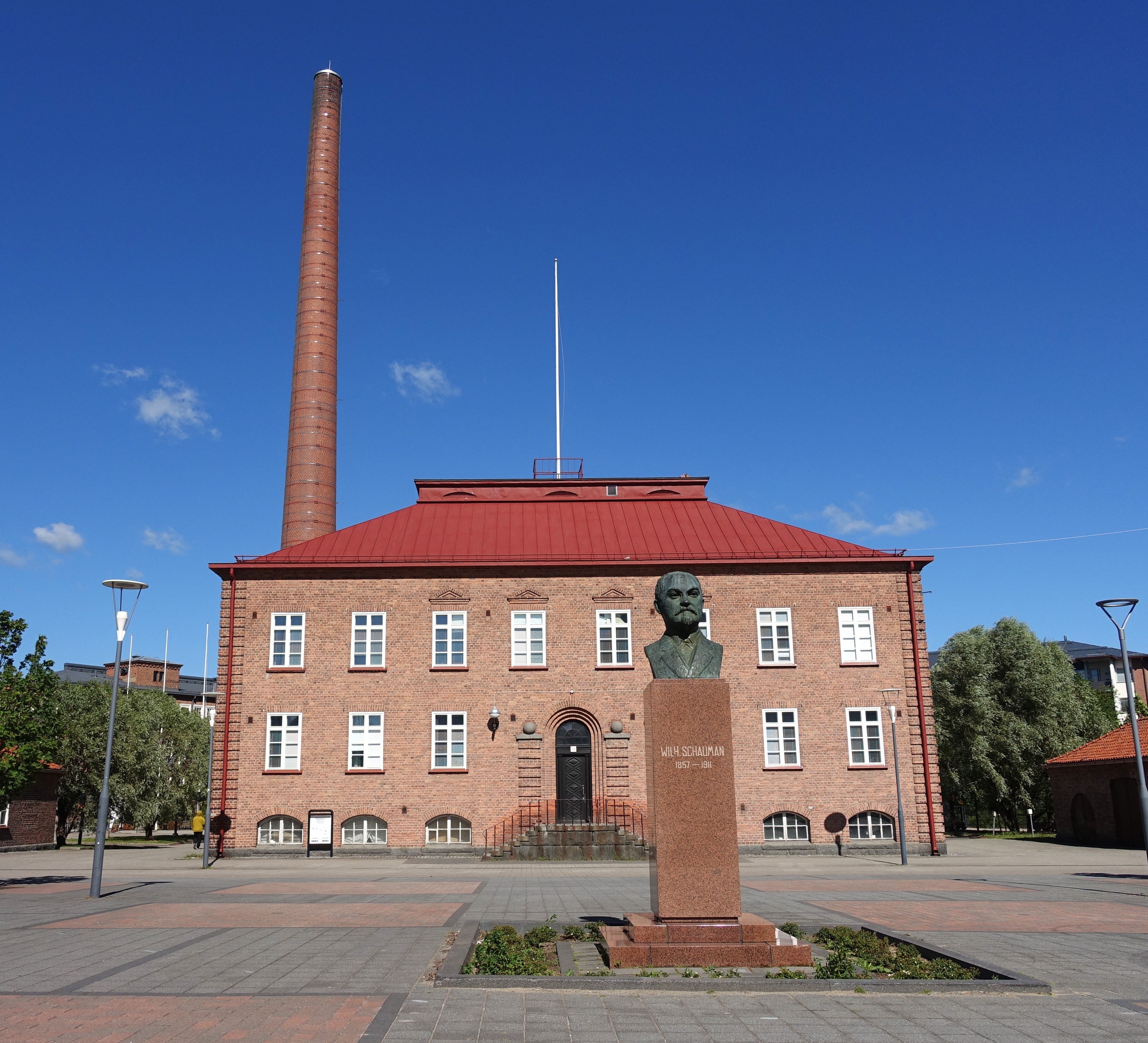 Schauman's plywood factory, Jyväskylä.